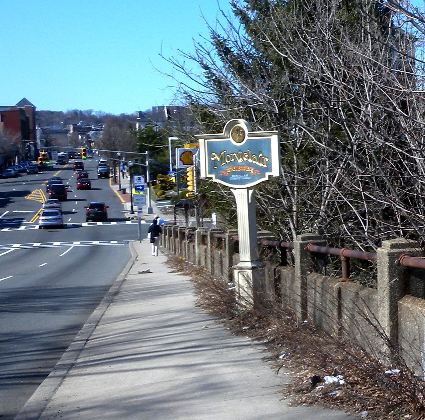 Looking northwest along Bloomfield Avenue rail overpass at welcome to Montclair.